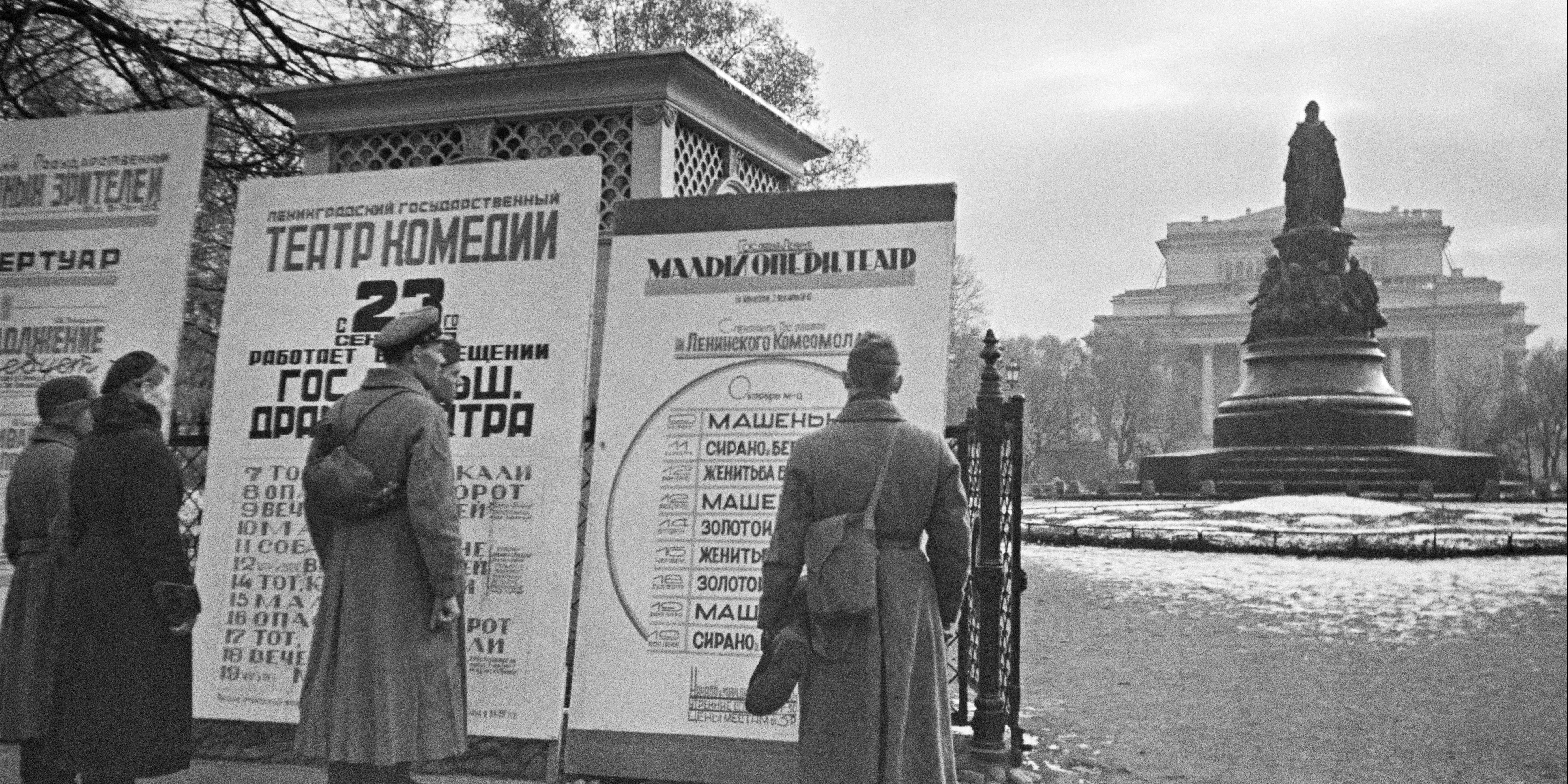 “People in front of theater marquee”. People in front of a theater marquee in Leningrad, October 1941.